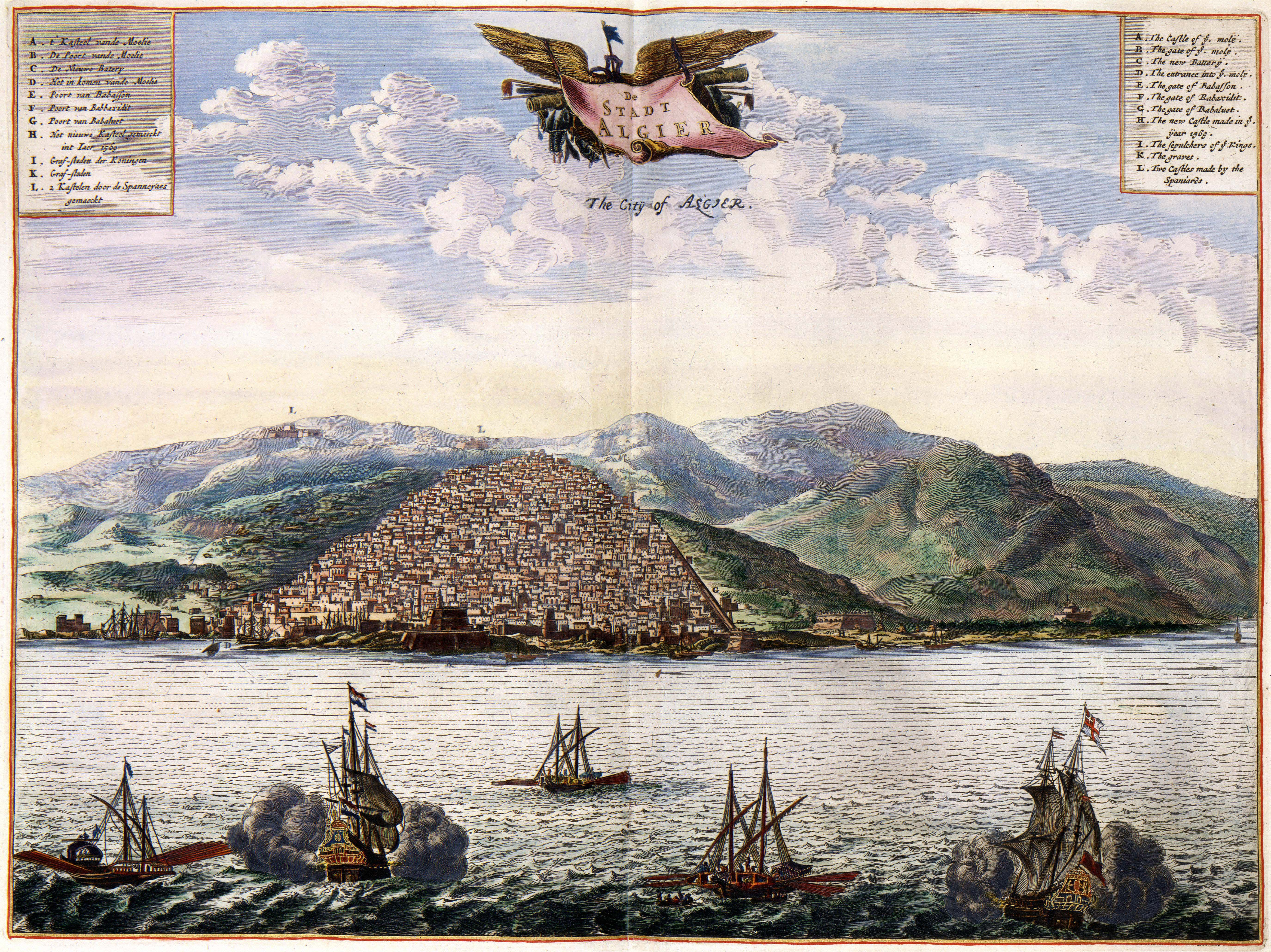 This unsigned view on the city of Algiers was probable published as book illustration in Amsterdam around 1700. Its engraver is unknown.